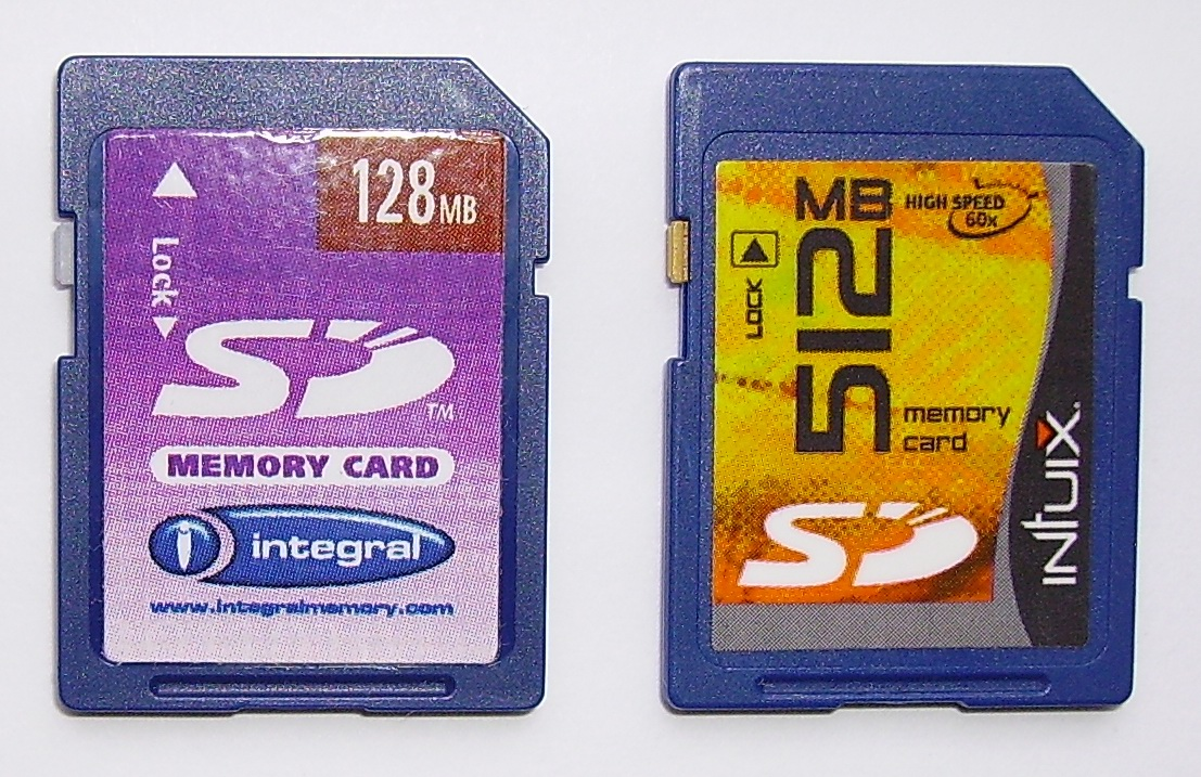 SD memory cards: Integral 128 MB and Intuix 512 MB.